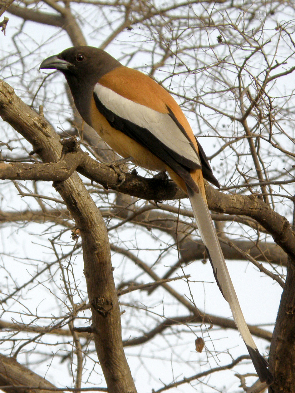 Rufous Treepie (Dendrocitta vagabunda) at the entrance of the Ranthambore National Park - Rajasthan - India